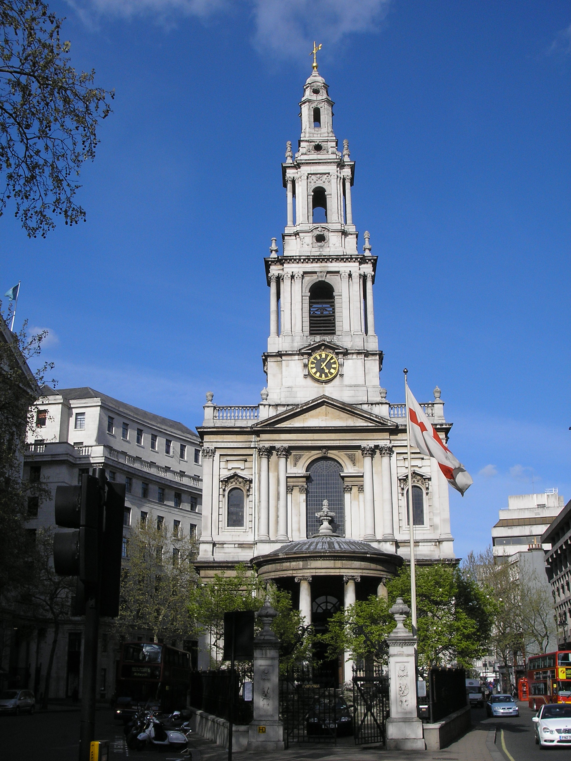 Church of St. Mary-le-Strand in London.